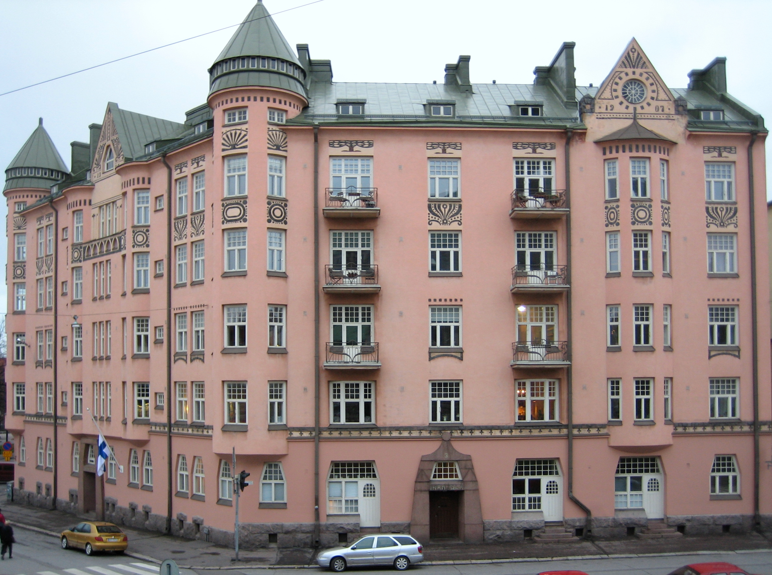 Ihantola is a jugend style building in Helsinki, Finland, built in 1905–1907. It was designed by O. E. Koskinen.